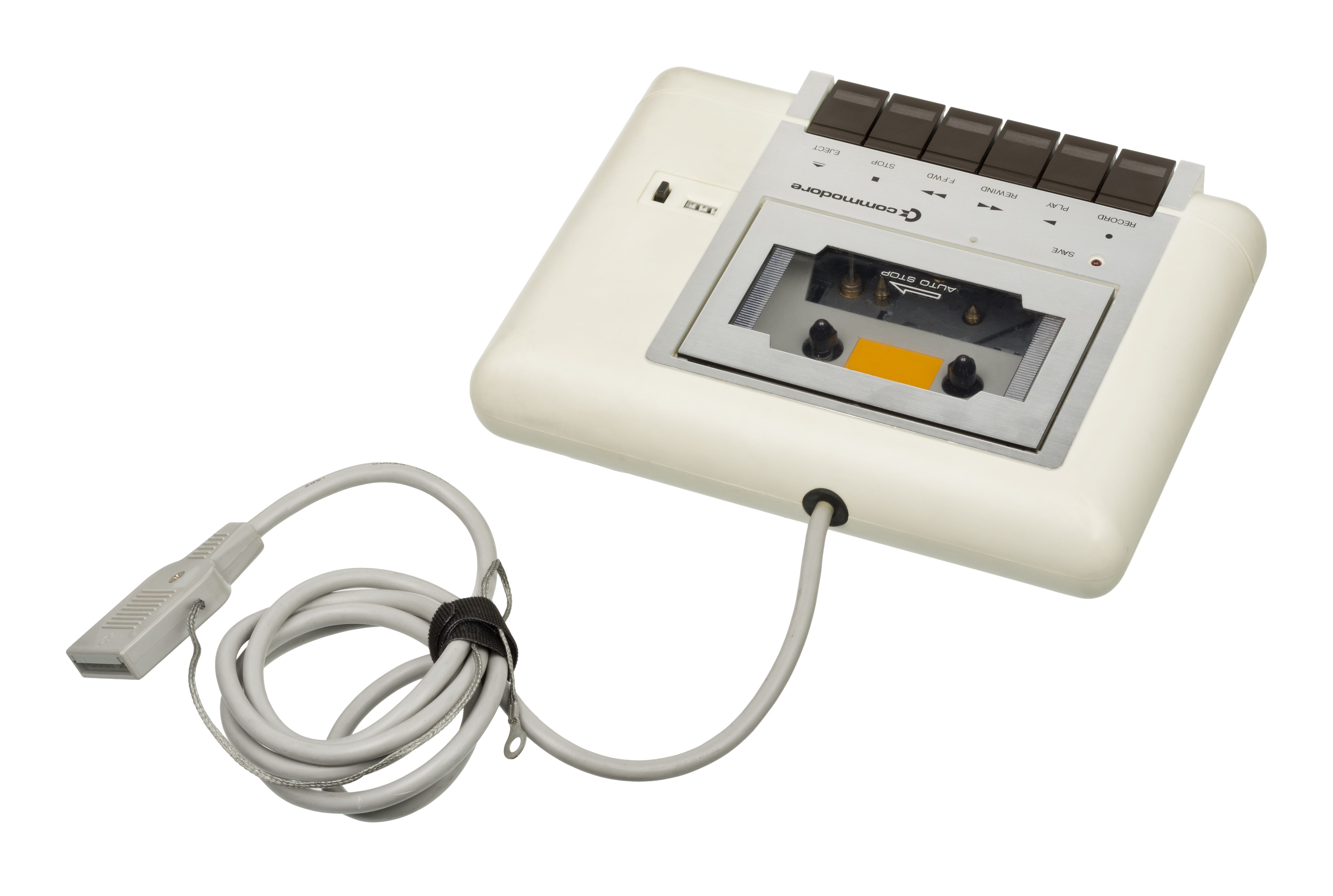 A Commodore 1530 (C2N) Datasette drive for the Commodore line of computers, shown with the connector cord. This made it possible to save and run programs from inexpensive cassette tapes.